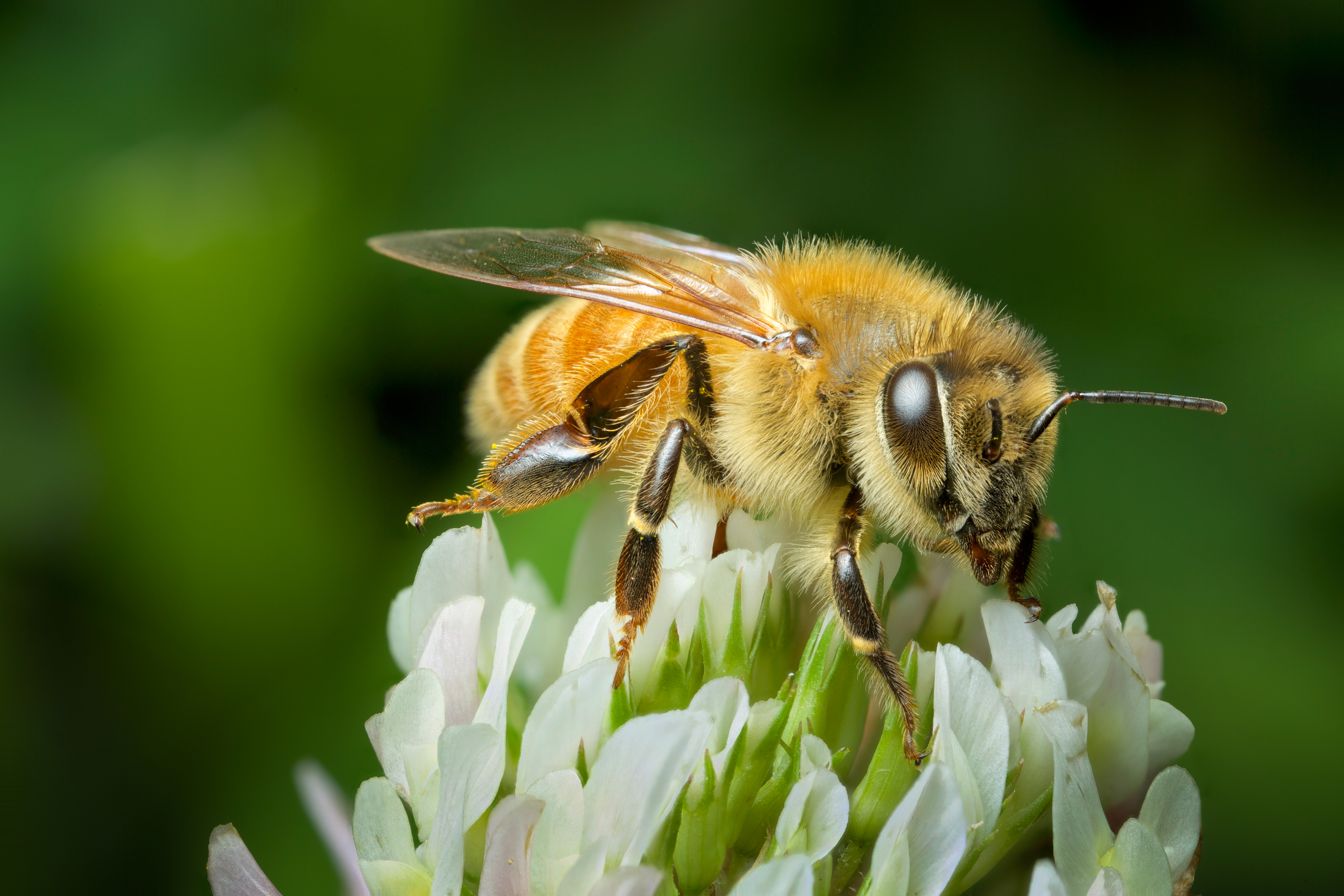 Honeybee (Apis mellifera) on a clover (Trifolium) shot in Tairua, Waikato, New Zealand. Original description on Flickr: My friend Josh, that I'm staying with in New Zealand at the moment, works on a bee farm (sic) making Manuka honey. so I set myself the challenge of stacking a honey bee, the first big insect I've stacked. They're a lot lighter coloured than the UK bees but not particularly aggressive, which is good as I was pestering this one quite a lot. In retrospect, it would have been better without the flash but I'm still pleased with it. This was a ten shot stack, made more tricky as it was windy, like it wasn't hard enough...! The only annoying thing is the nearer antenna is foreshortened so it's a blur... This is an un-cropped photo, which is why it's really worth checking out the photo in LARGE (click on the three dots to the right of the photo then 'view all sizes' ) as there's some great details to be seen...